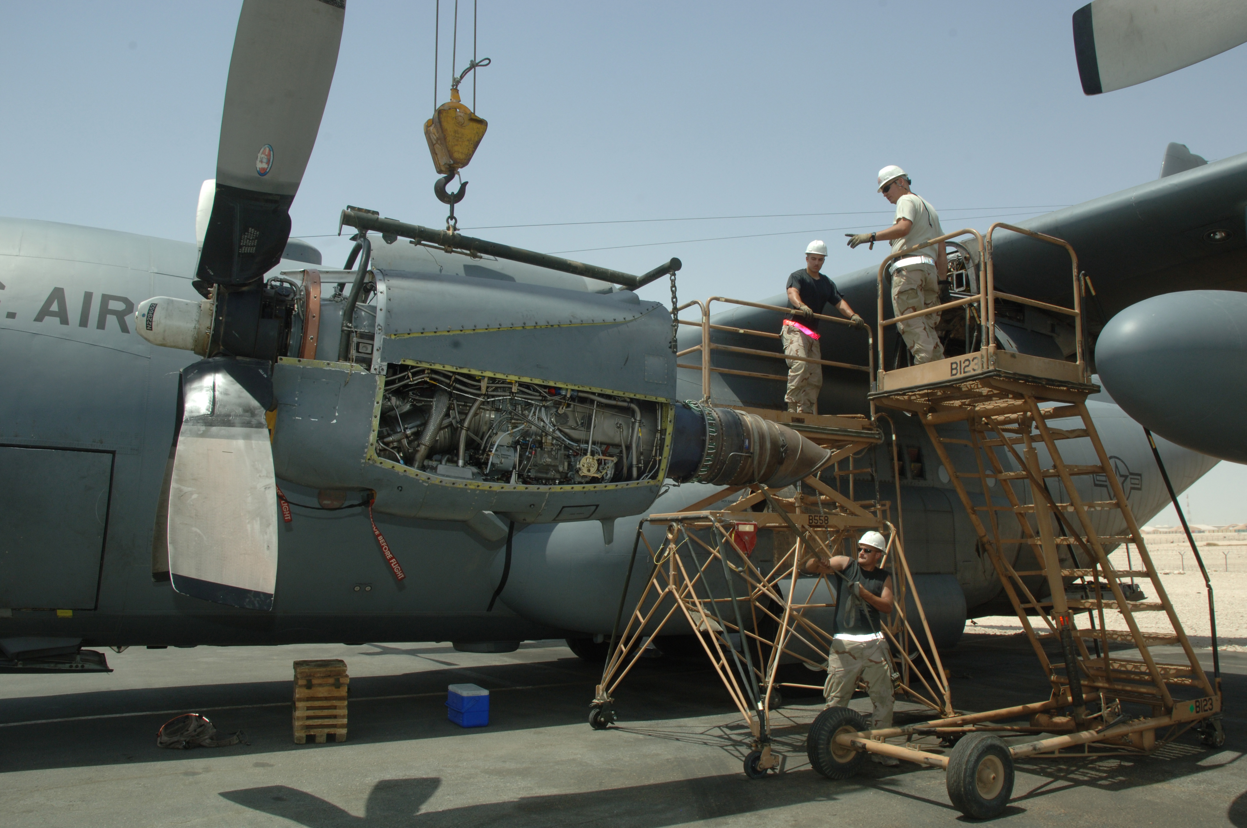 U.S. Air Force members of the 746th Aircraft Maintenance Unit (317th Aircraft Maintenance Squadron, Dyess AFB) guide an Allison T56 turboprop engine into place as they remount it onto a Lockheed C-130H Hercules aircraft on 13 July 2007, in Southwest Asia.